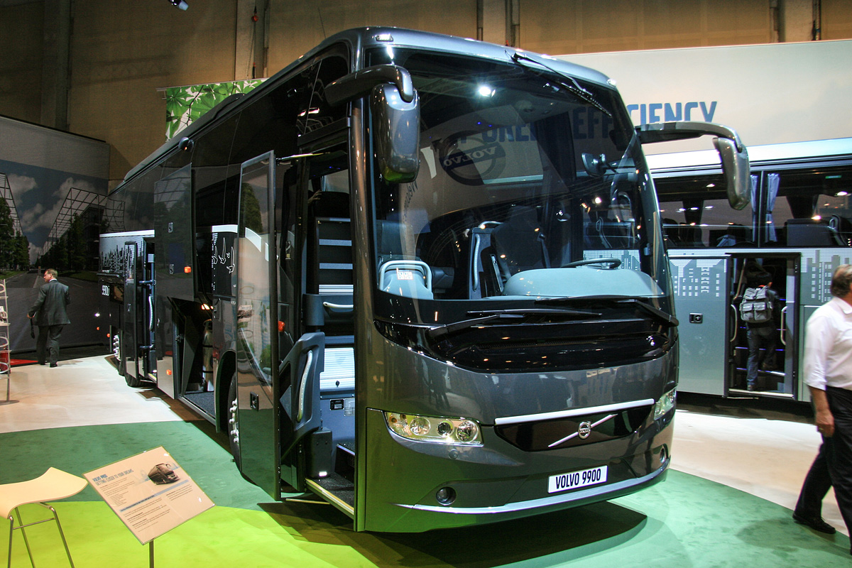 Volvo 9900 at Busworld Kortrijk 2013.